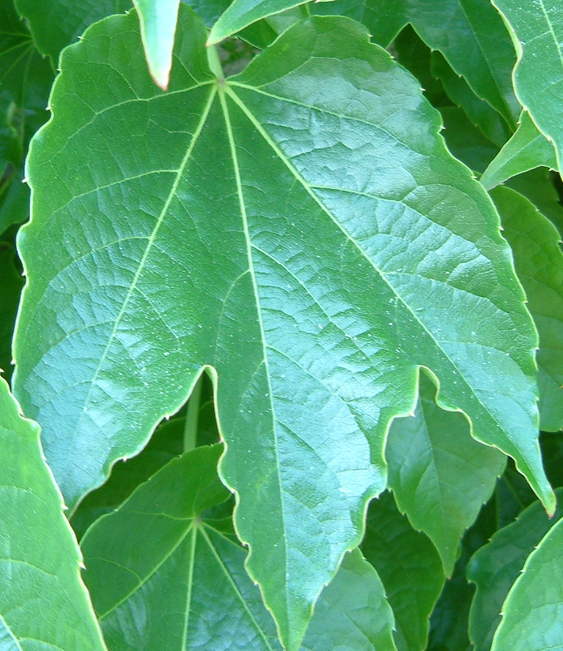 Wilder Wein (Parthenocissus tricuspidata, Green Spring)